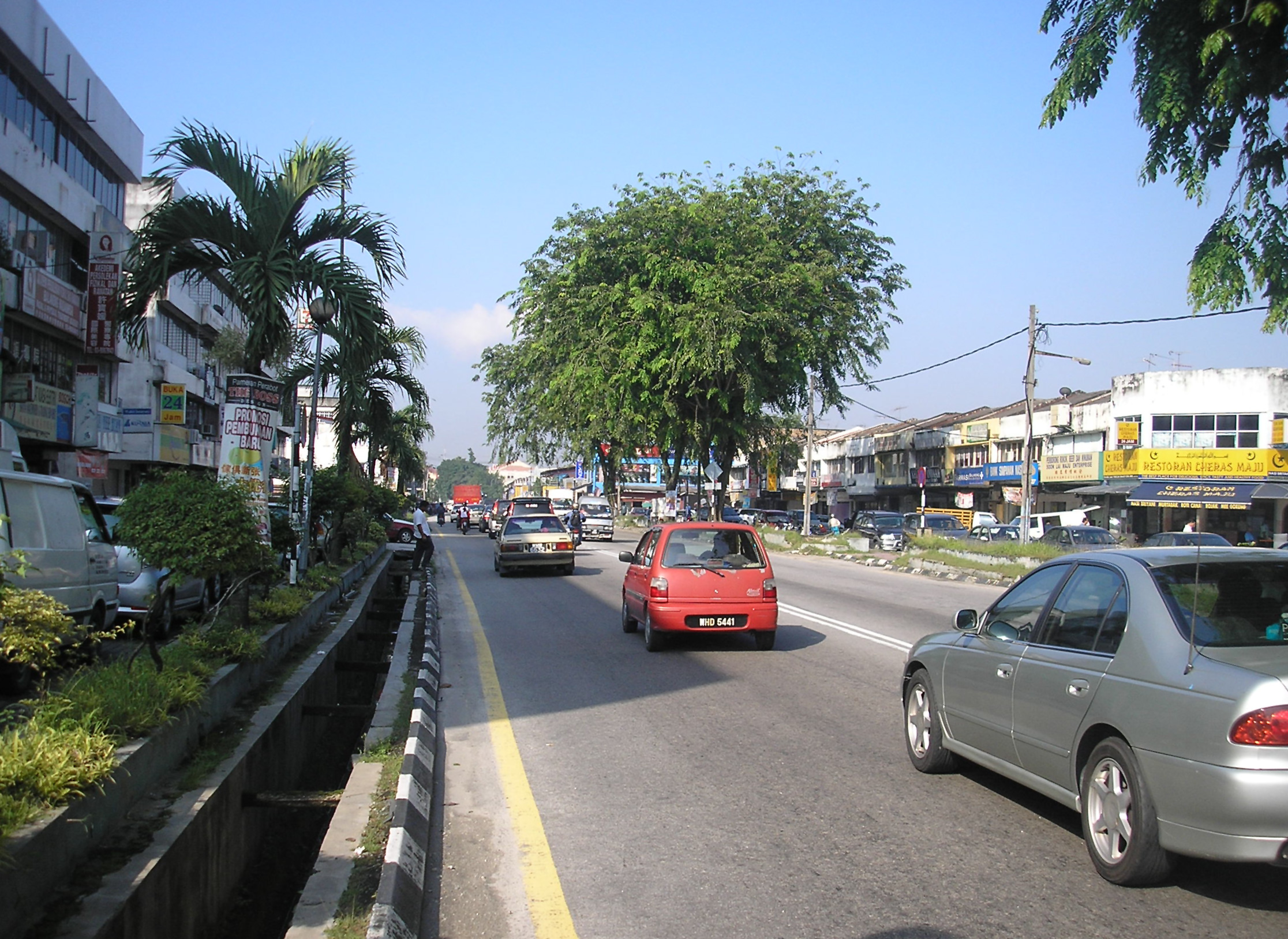 The (new) main road of the town of Balakong (road name unknown), Selangor, Malaysia.